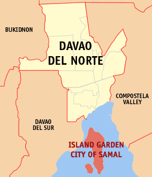 Map of the Davao del Norte showing the location of Samal